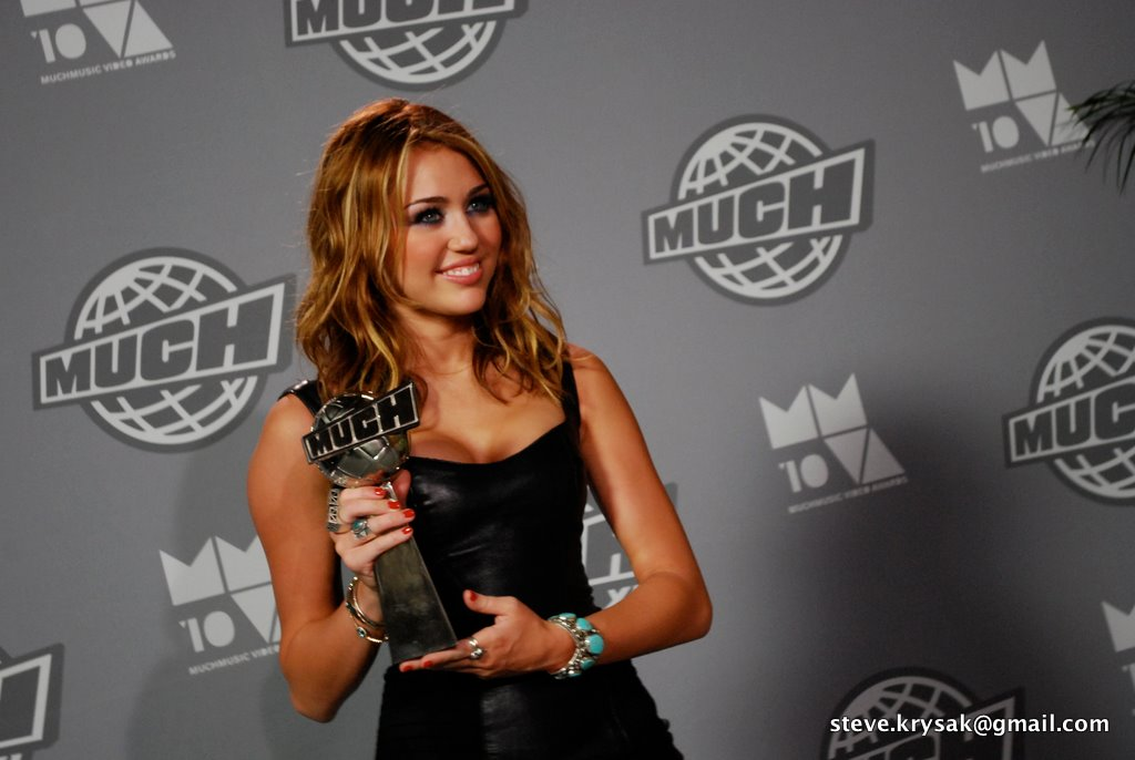 Miley Cyrus at the 2010 Much Music Video Awards with her award for Best International Artist Video